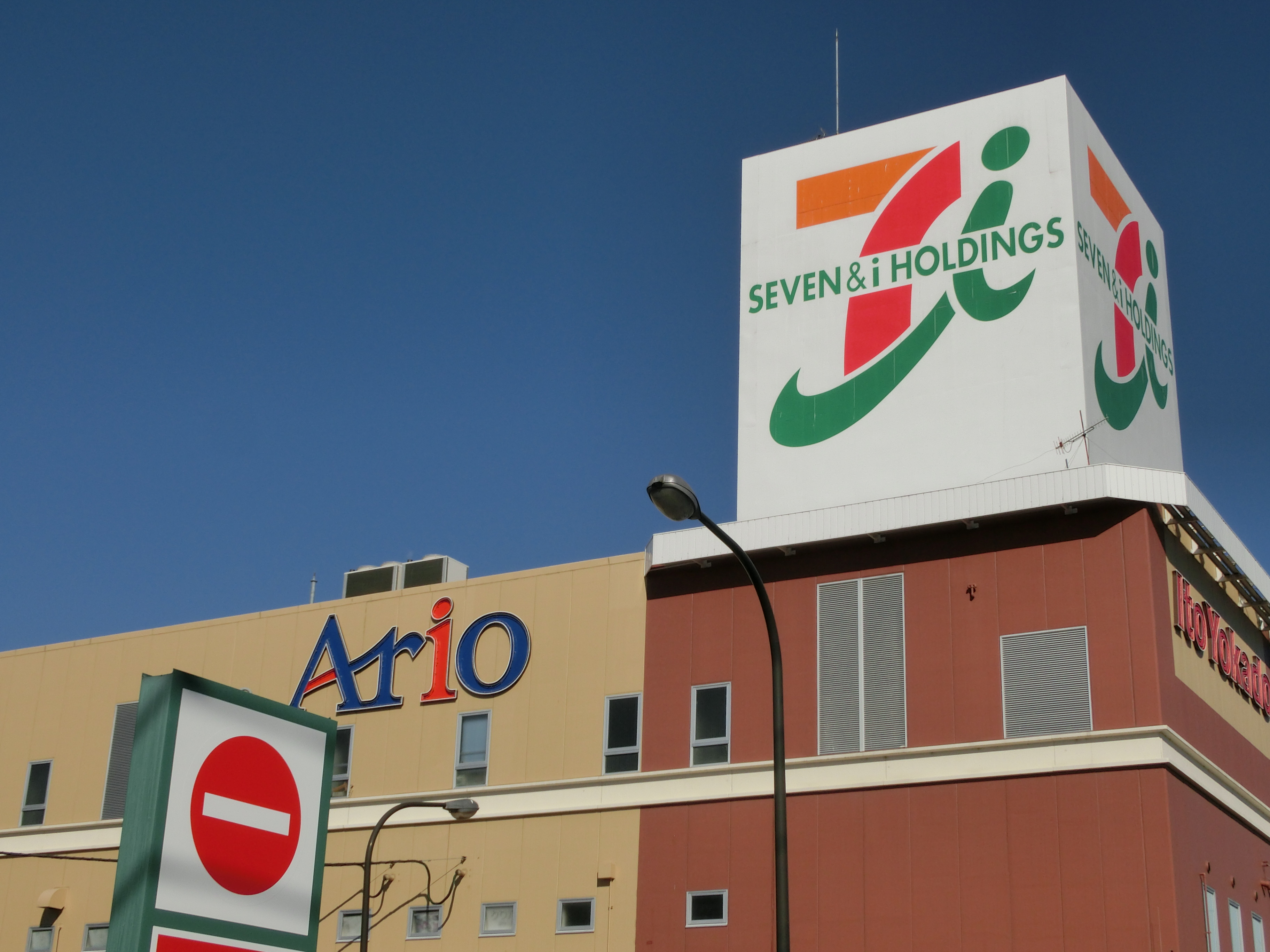 Ario Fukaya